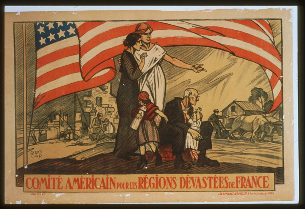 Title: Comité Americain pour les Régions Dévastées de France Abstract/medium: 1 print (poster) : lithograph, color ; 79 x 119 cm.